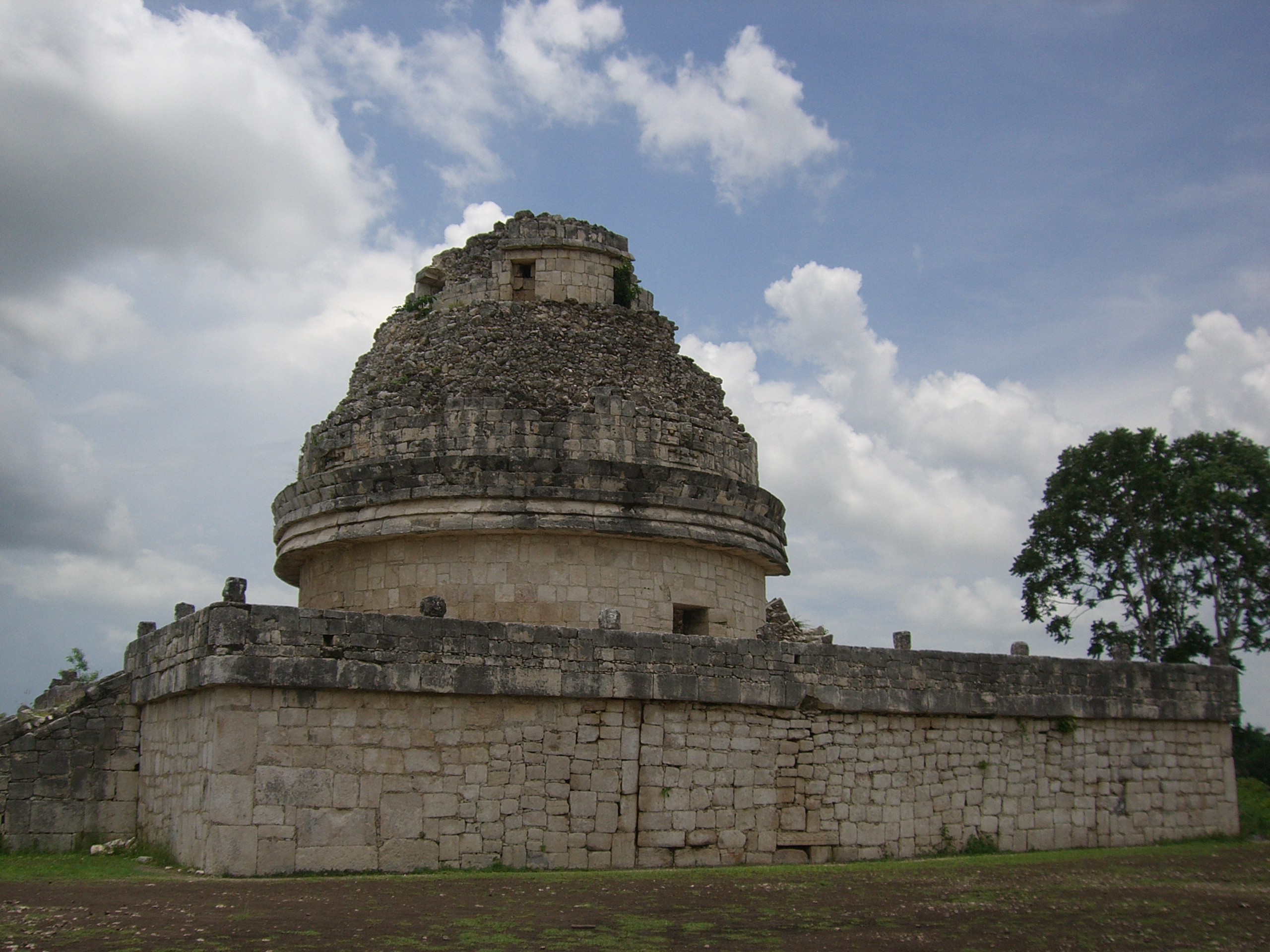 Observatory in Chichén Itzá